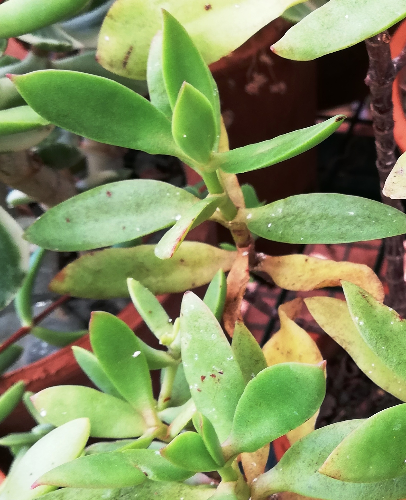 Crassula cultrata in cultivation at Babylonstoren